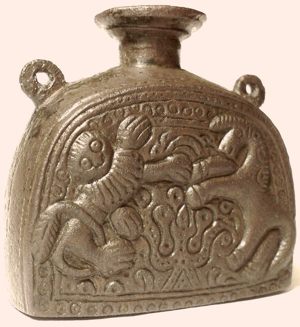 An inkwell of the 17th and the early 18th century. The motif is the battle of the Lion and the Unicorn.